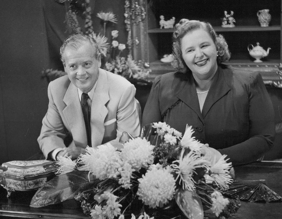 Photo of Kate Smith and Ted Collins from the television program The Kate Smith Show.